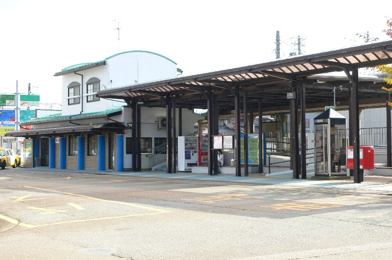 Uchinada St., Hokuriku Railroad, Ishikawa, Japan.